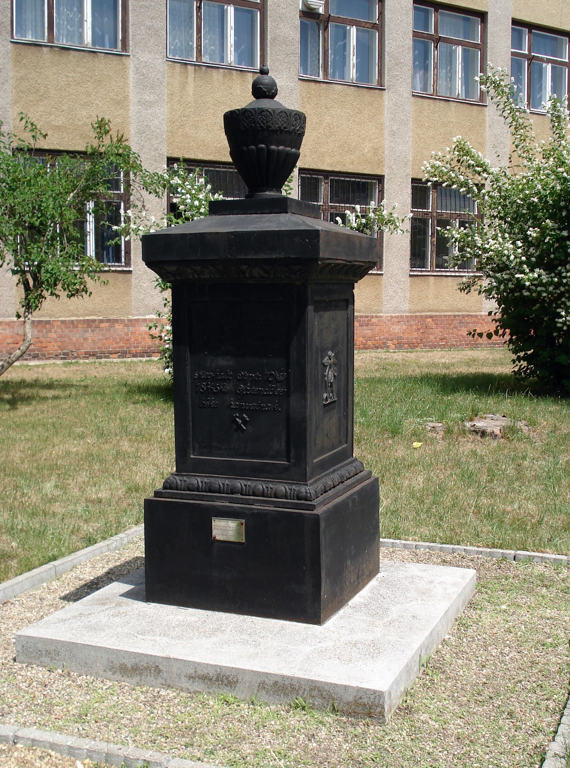 Cast iron grave monument of András Duronelli postmaster. Work of Henrik Fazola (1845). Miskolc, Hungary